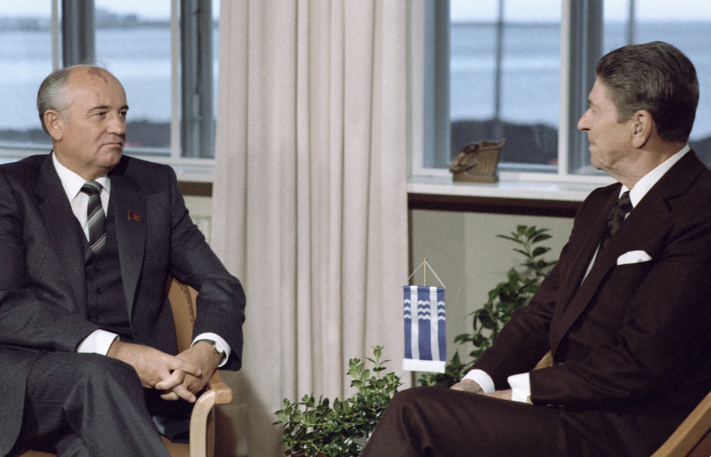 “Mikhail Gorbachev and Ronald Reagan in Reykjavik”. General Secretary of the CPSU Central Committee Mikhail Gorbachev (left) and U.S. President Ronald Reagan (right) during their summit meeting in Reykjavik.